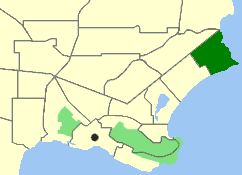 Map of the suburb of Emu Point in Albany, Western Australia.